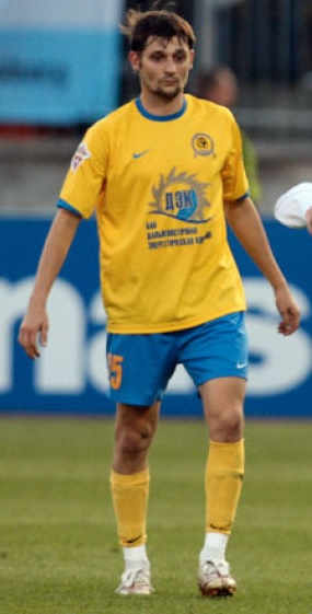 Igor Shevchenko in action for FC Luch-Energia